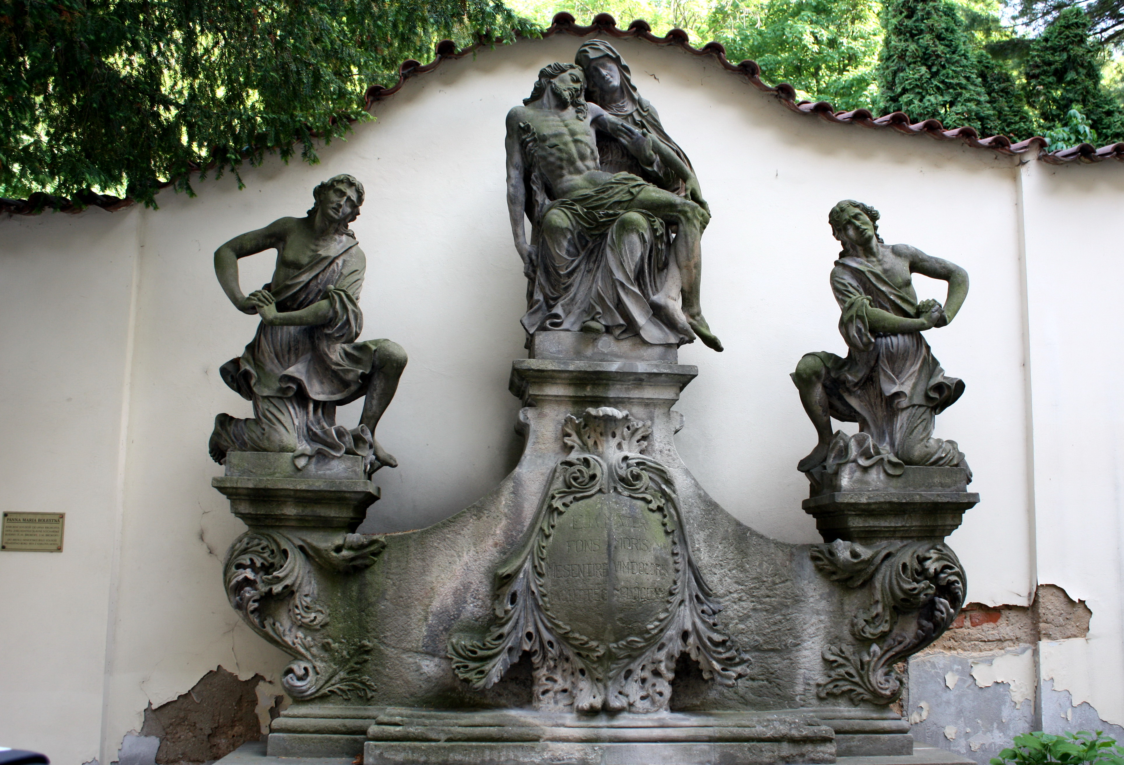 Pieta - Baroque sculpture by Jan Brokoff - originally on Charles Bridge moved in 1859 to Hospital "Pod Petřínem".